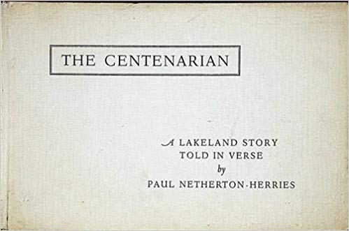 Hardcover book, published by Cornish Brothers Ltd of Birmingham, England. "Paul Netherton-Herries" was a pen name of Frederick W. LanchesterFrederick W. Lanchester.